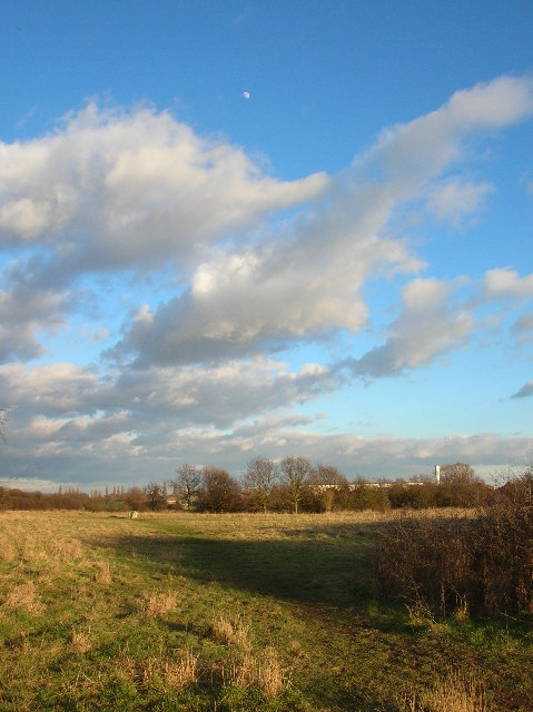 Clifton Backies. On the edge of the Clifton Moor industrial estate. The moon is already out on bright winter's afternoon.